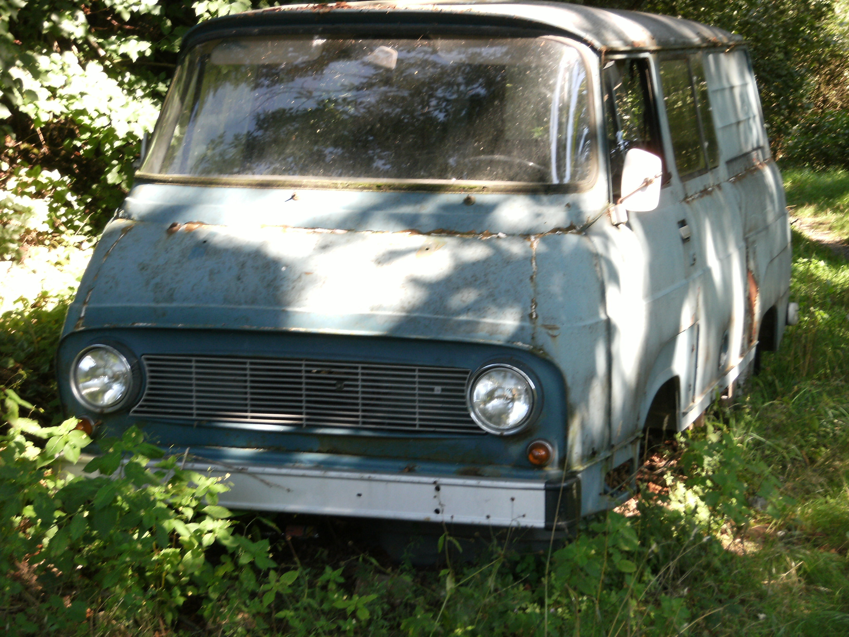 Wreck of van in Křtiny.